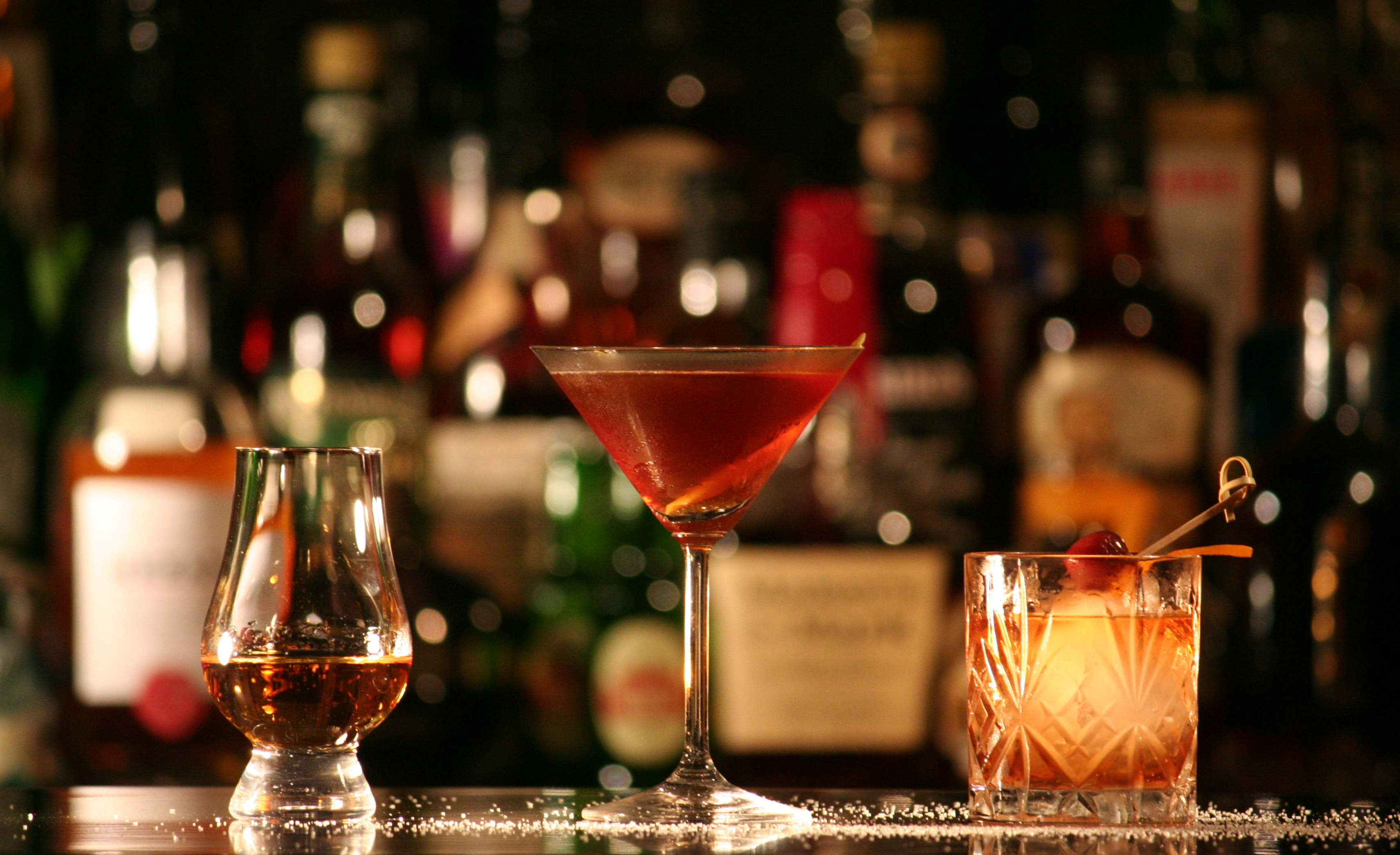 Nosing glass with Renegade Saint Lucia Rum, cocktail glass with Manhattan and Old Fashioned glass with Tequila Old Fashioned.